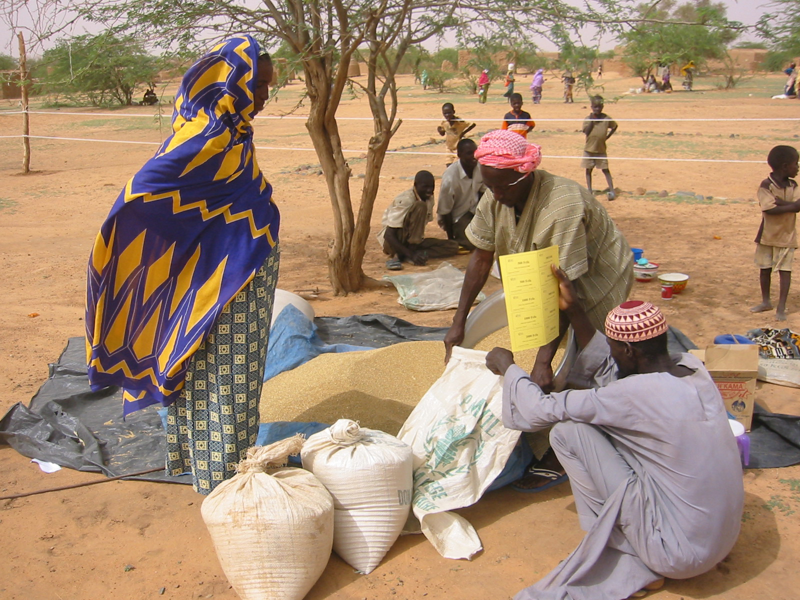 Caption: Farmers from Niger negotiate seed prices with vendors at a USAID-sponsored seed fair in the south-central Zinder district.